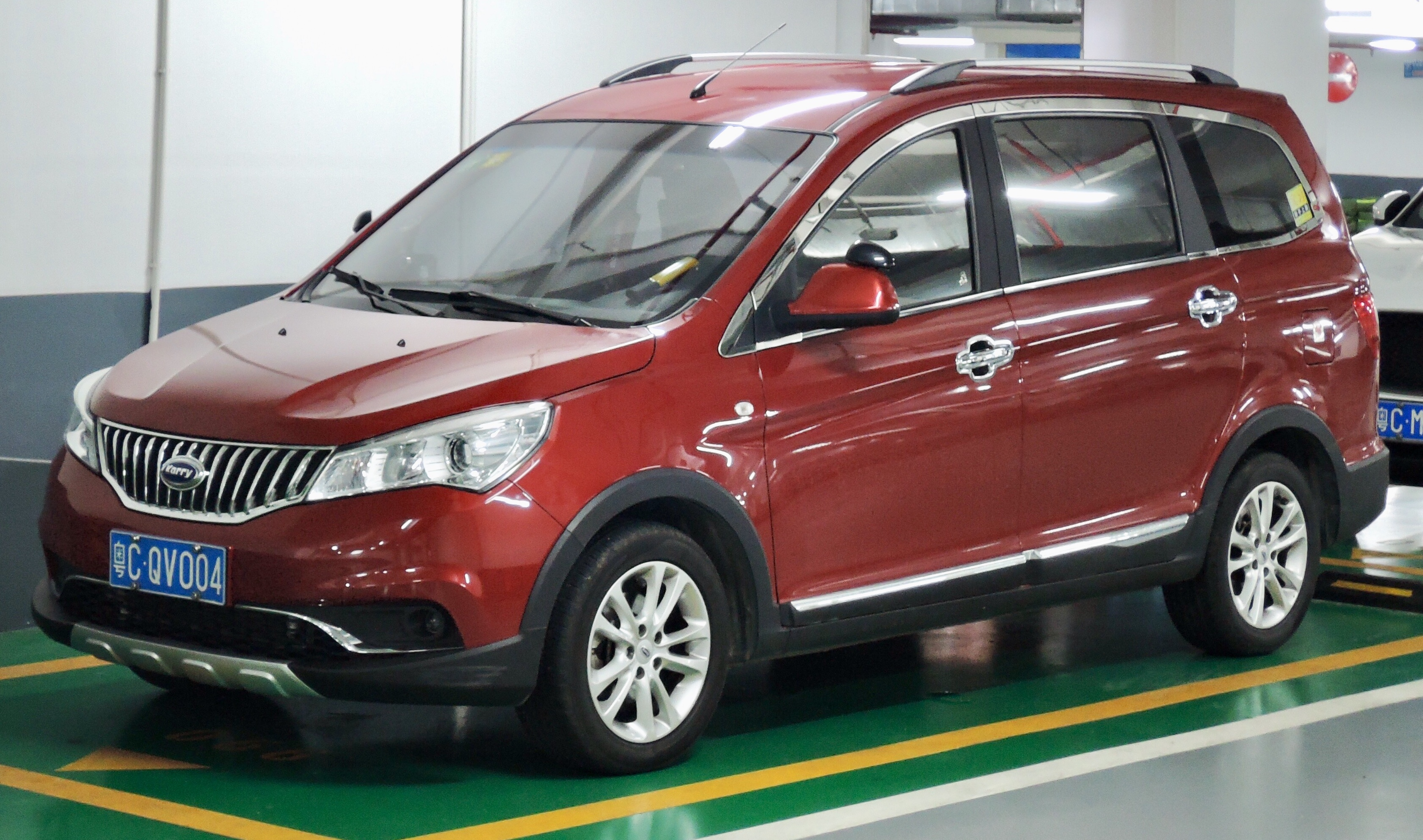 A 2017 Karry K50S taken in Zhongshan, Guangdong province, China. 中文（中国大陆）: 一辆开瑞K50S，摄于中国广东省中山市。